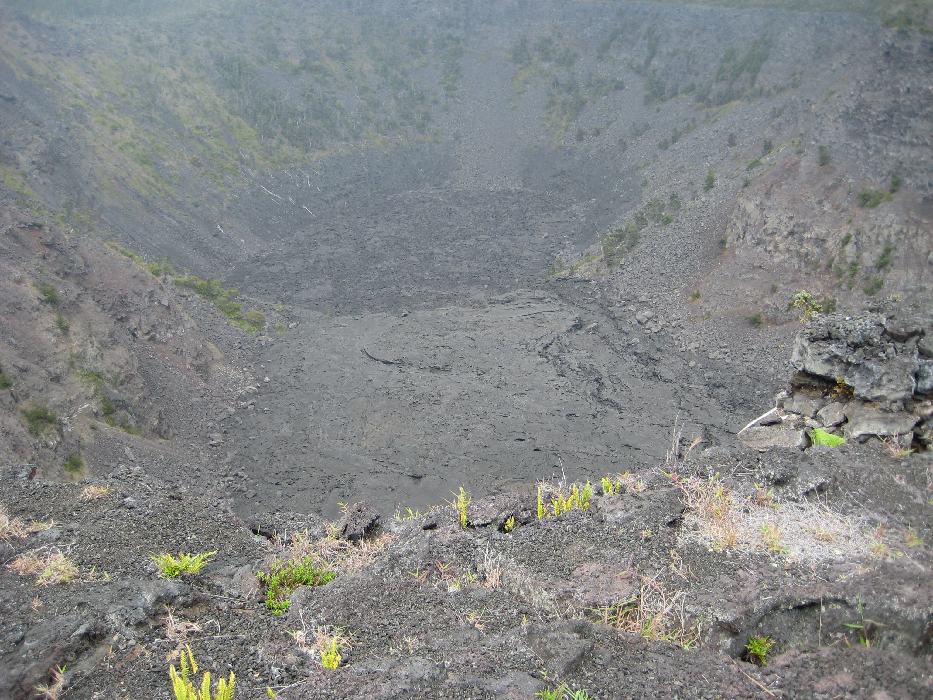 Pauahi Crater, Hawaii, United States.